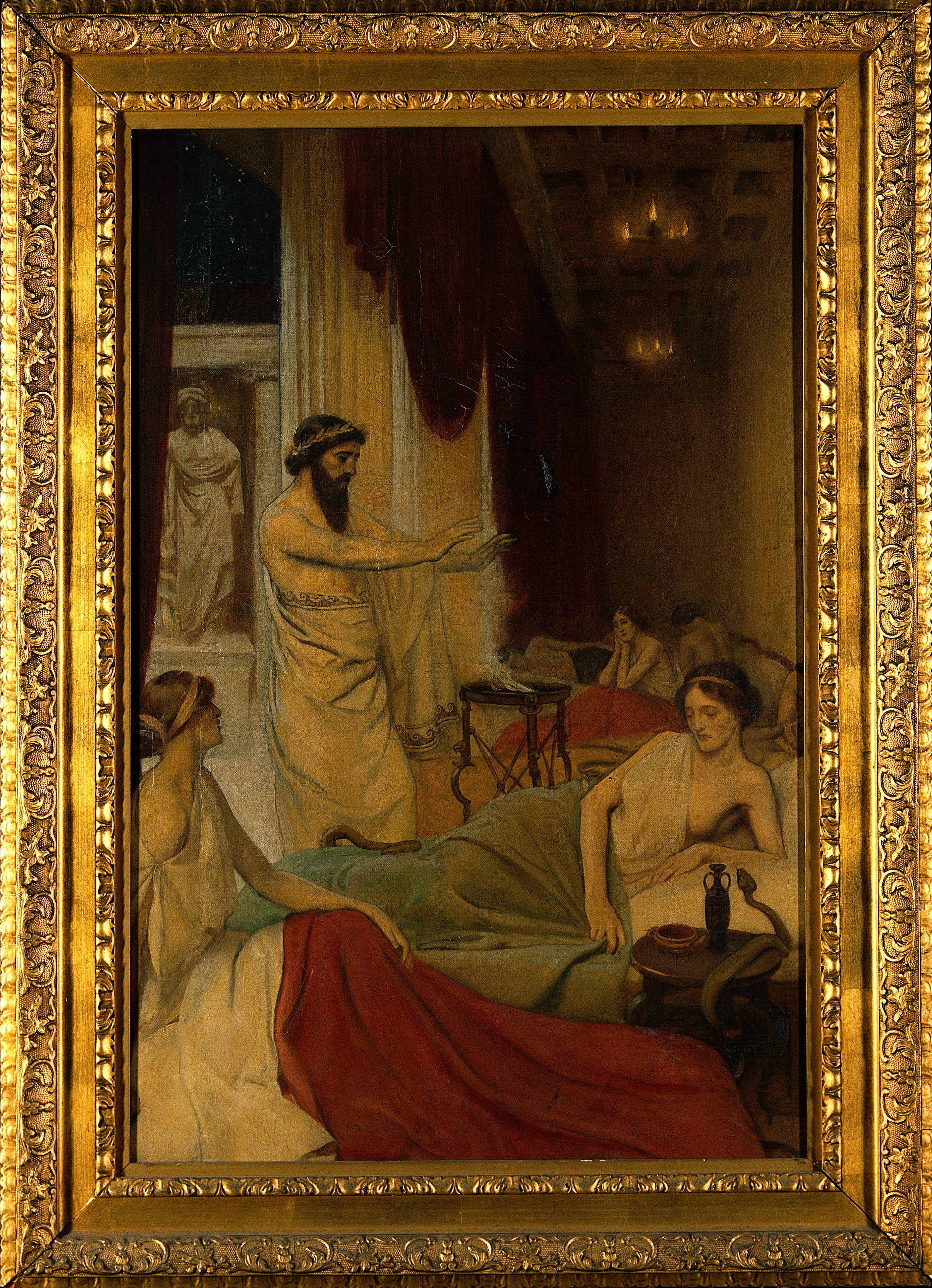 Patients sleeping in the temple of Aesculapius at Epidaurus. Oil painting by Ernest Board. Iconographic Collections Keywords: Ernest Board